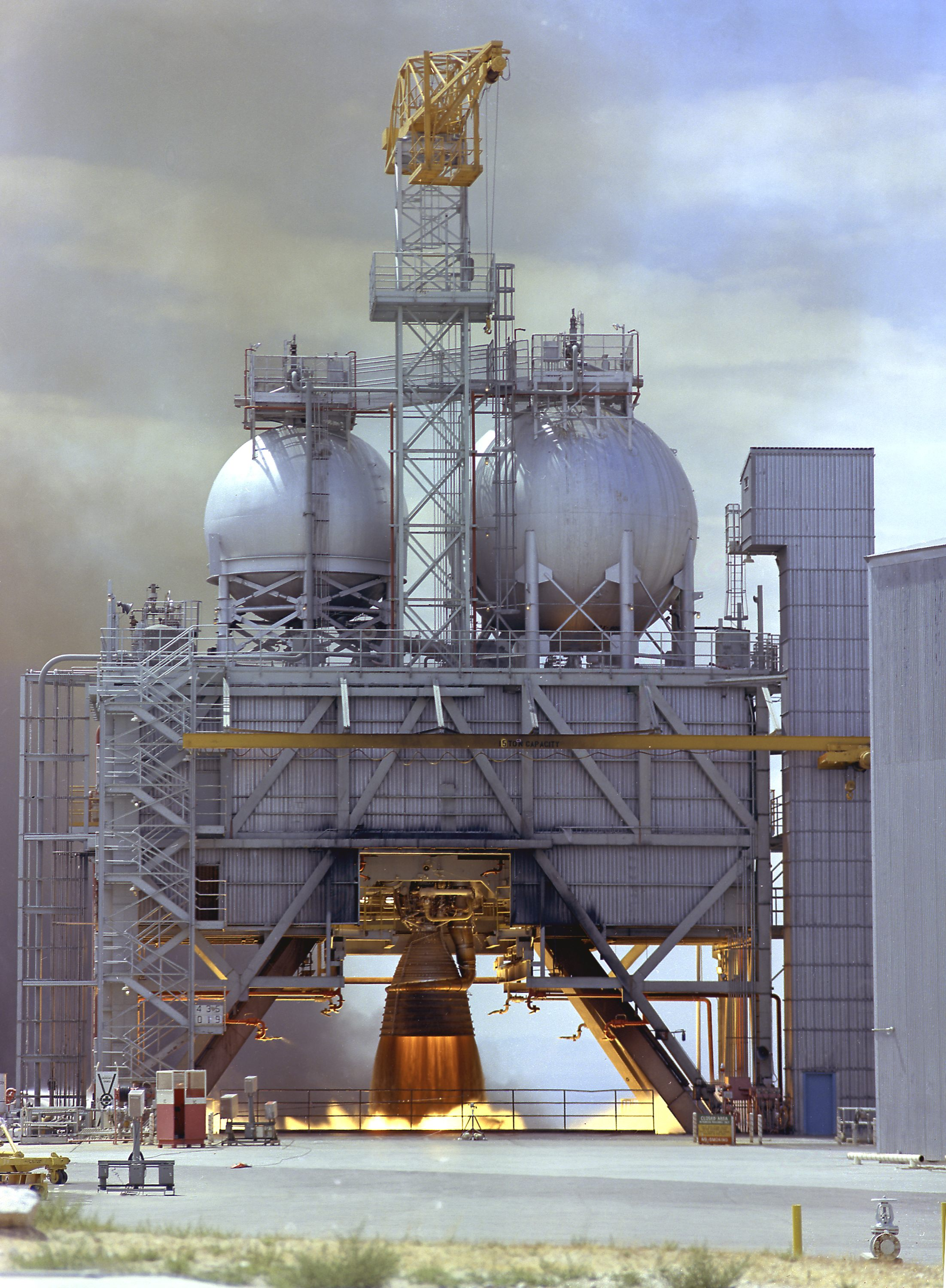 Test Firing of an F-1 Engine at Edwards Air Force Base. The F-1 engine was developed and built by Rocketdyne under the direction of the Marshall Space Flight Center. It measured 19 feet tall by 12.5 feet at the nozzle exit, and produced a 1,500,000-pound thrust using liquid oxygen and kerosene as the propellant. The image shows an F-1 engine being test fired at the Test Stand 1-C at the Edwards Air Force Base in California.